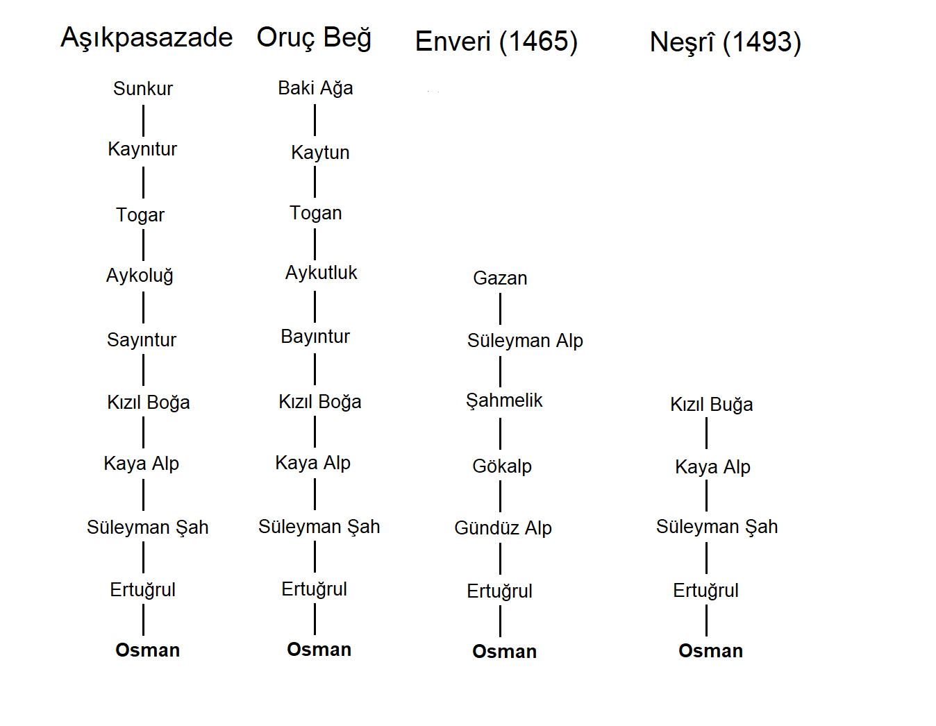 Osman I's Geneaology according different Ottoman historians Aşıkpaşazade (before 1484)[1] Oruç Bey (13-16th century)[2] Enveri (1465)[3] Neşri (1493)[4]